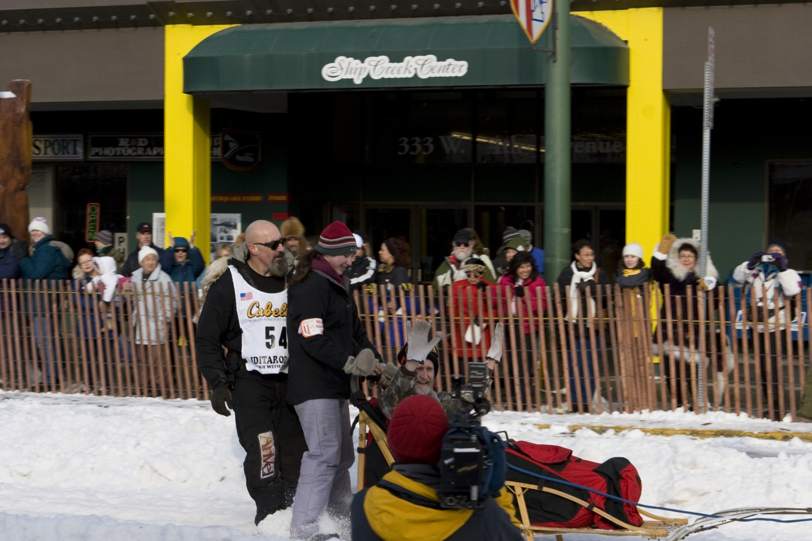 Iditarod 2006 at Anchorage Offical start. Musher Paul Ellering 2006 Iditarod